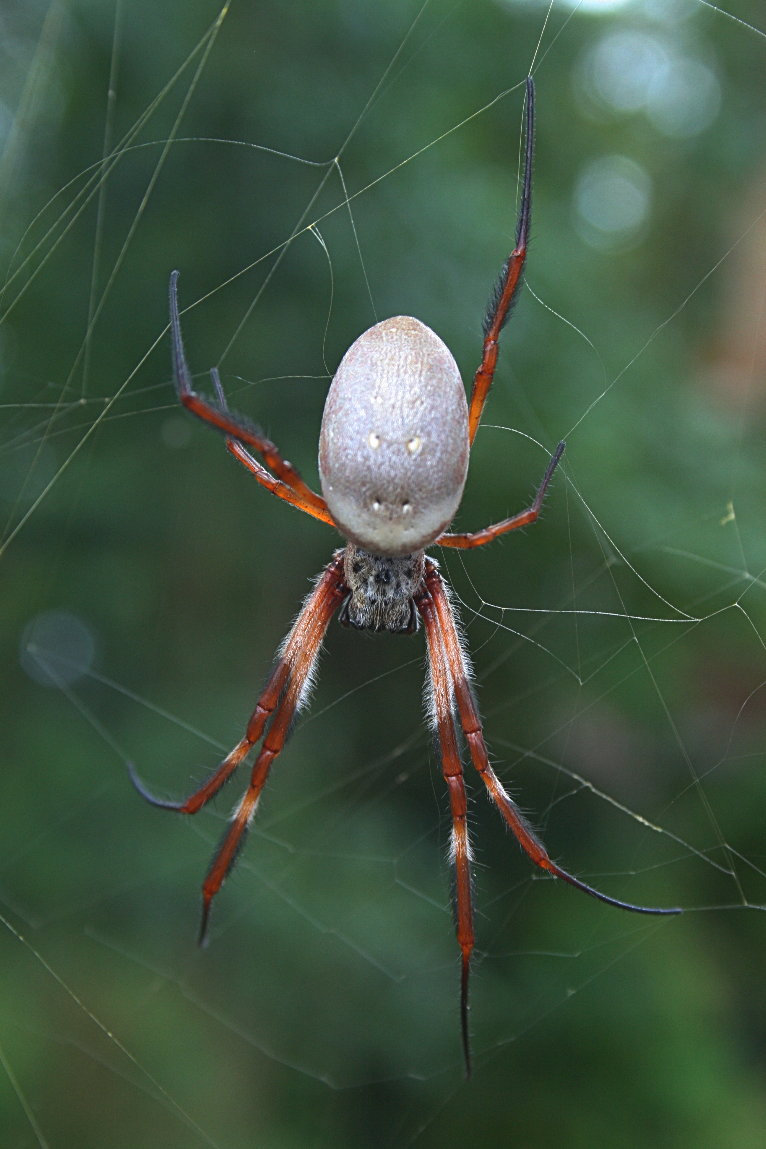 Golden orb spider (Nephila edulis) in a Sydney garden.